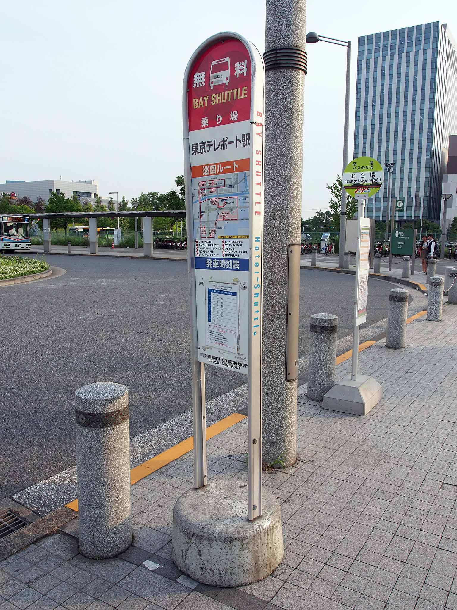 Bus stop for the "Tokyo Bay Shuttle" in front of Tokyo Teleport Station in Tokyo